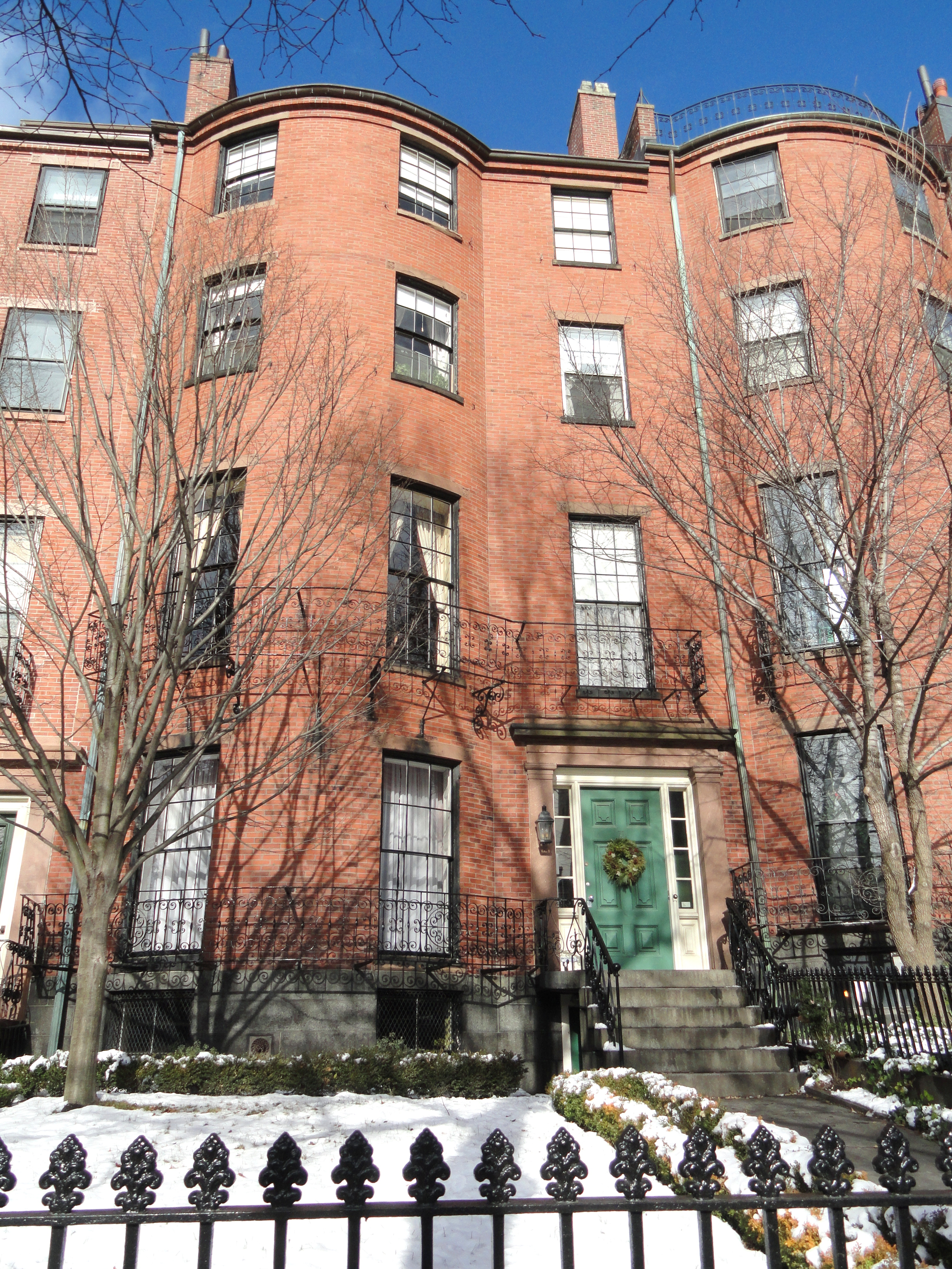 77 Mount Vernon Street, Boston, Massachusetts, USA. Home of artist and philanthropist Sarah Wyman Whitman from 1880-1904.